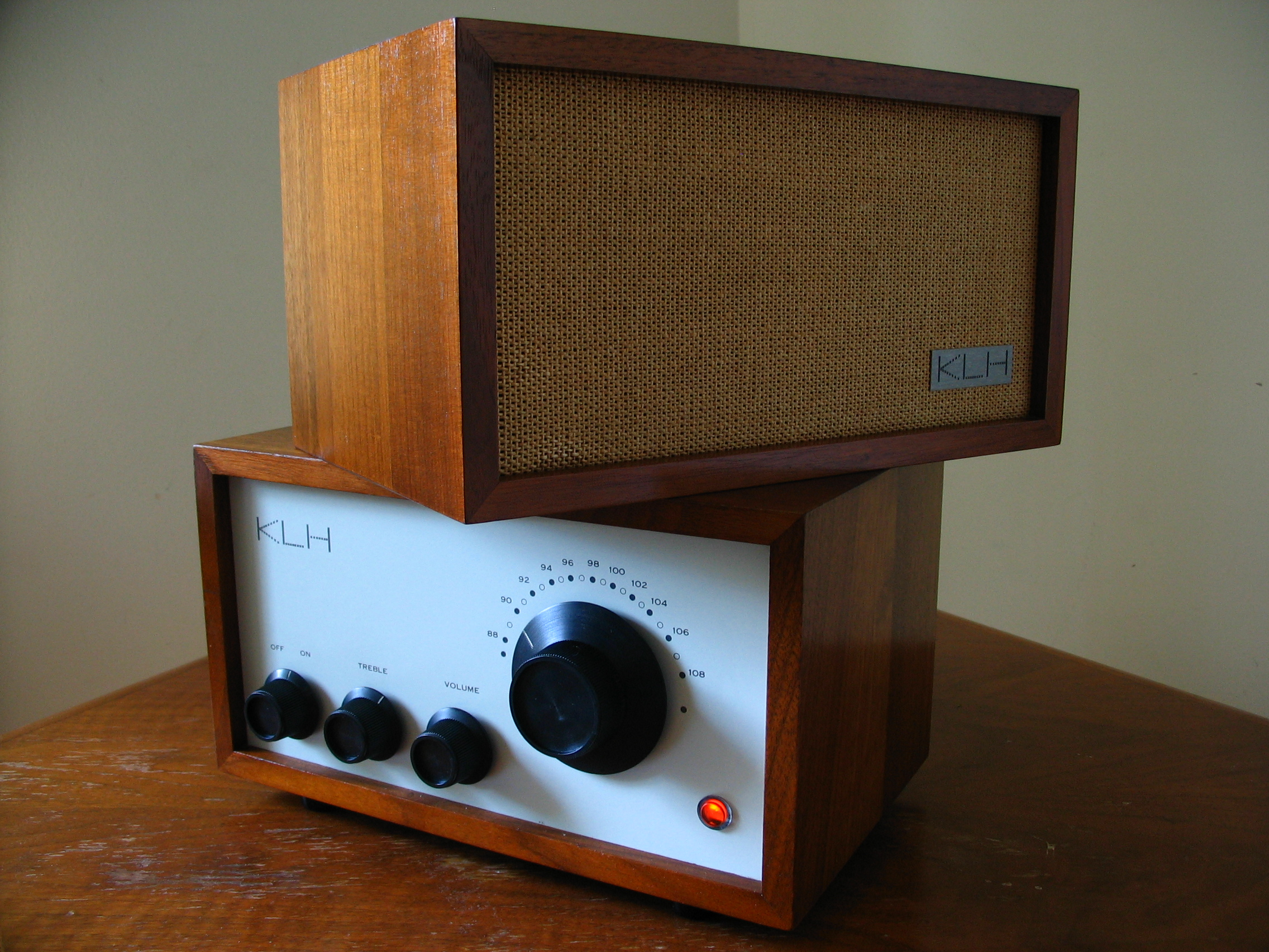 The KLH Model Eight vacuum tube FM radio with its matched dual-driver external speaker on top; the Eight is the first (and perhaps greatest) in Henry Kloss' long line of highly-renowned vernier dial-tuned table radios.